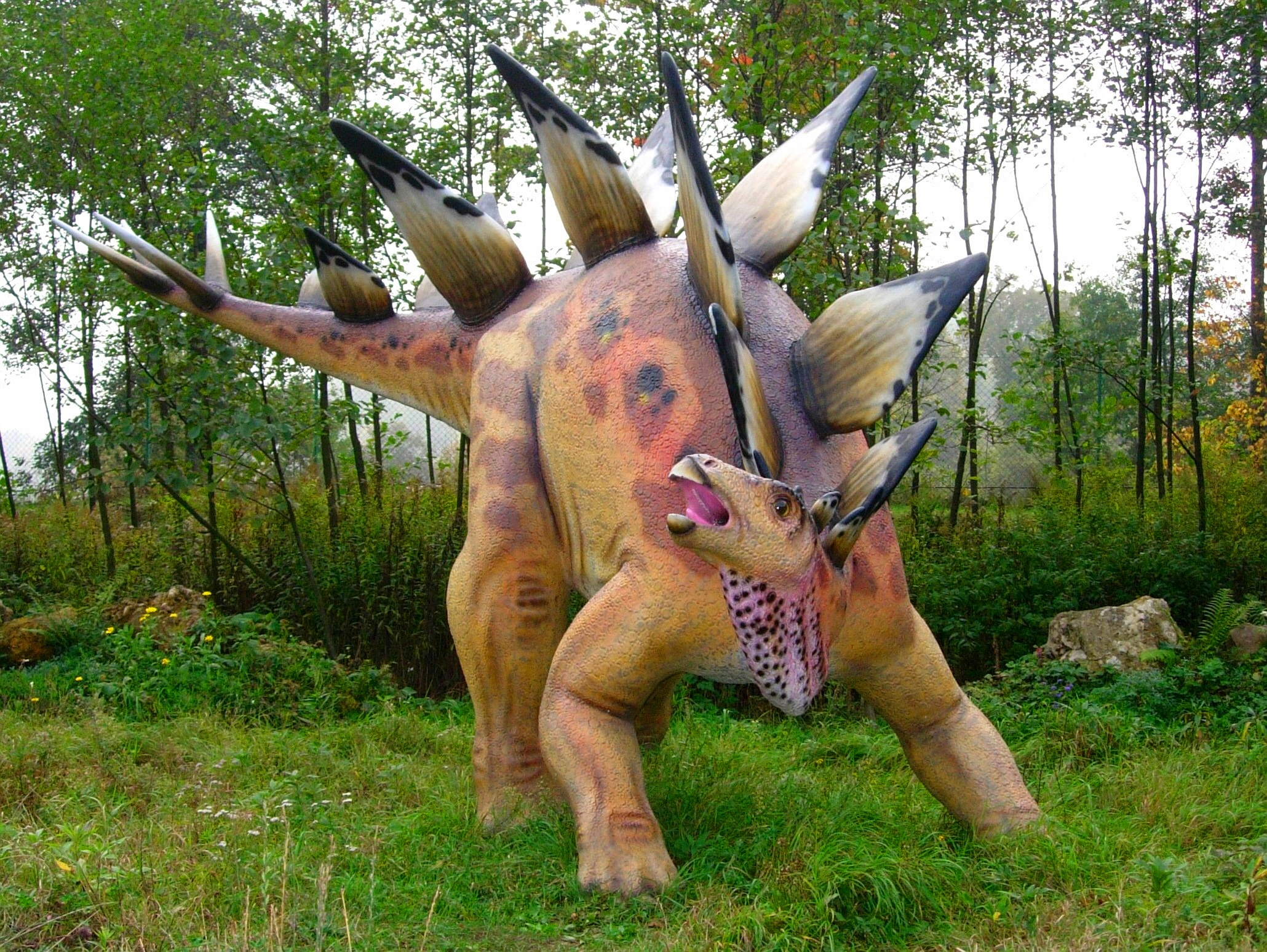 Model of stegosaurus in Bałtów Jurassic Park, Bałtów, Poland